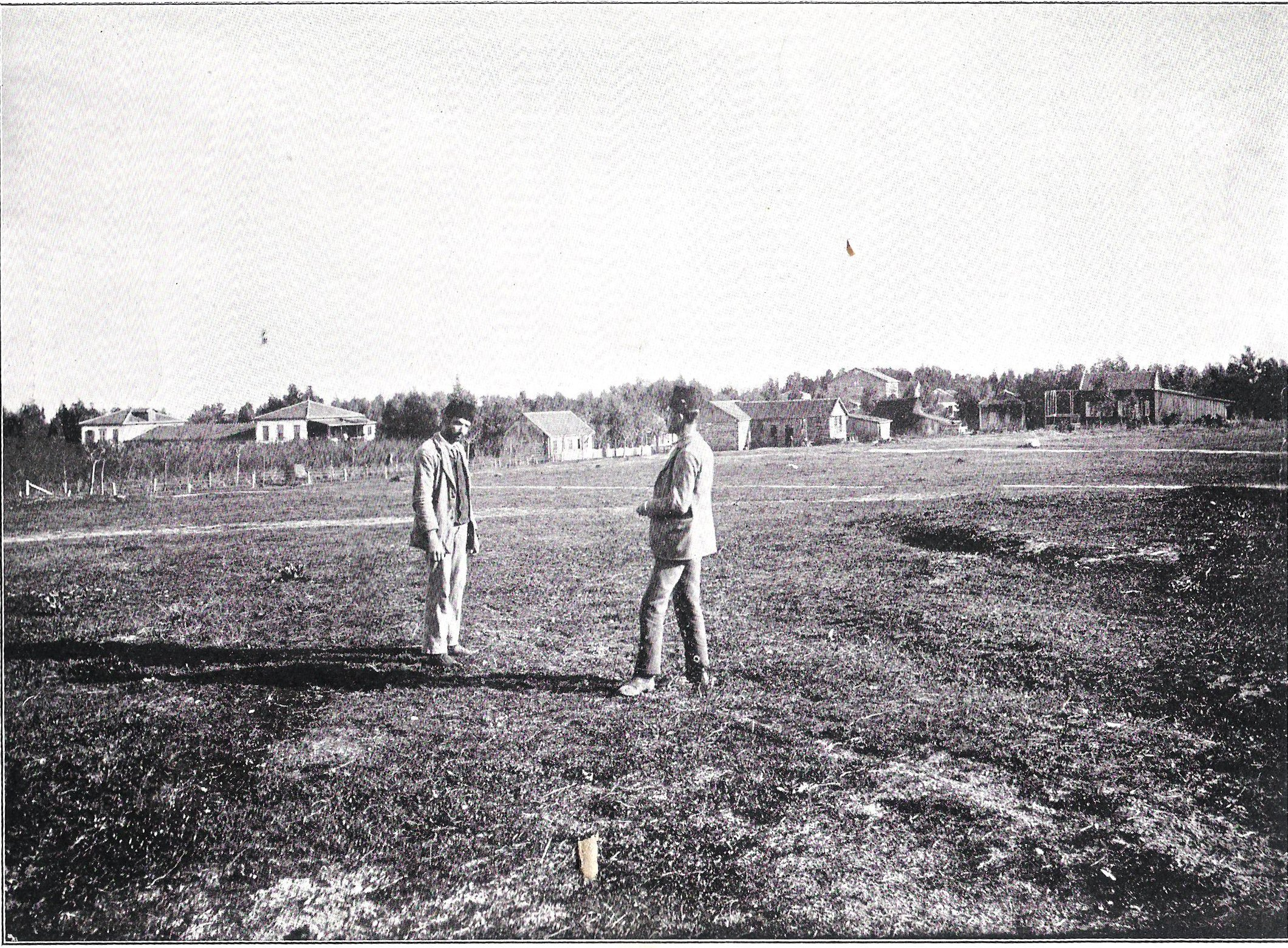 The picture are from old book (that was published in 1899), some of the picture are fro 1899, some are even older: This work or image is now in the public domain because its term of copyright has expired in Israel (details). According to Israel's copyright statute from 2007 (translation), a work is released to the public domain on 1 January of the 71st year after the author's death (paragraph 38 of the 2007 statute) with the following exceptions: A photograph taken on 24 May 2008 or earlier — the old British Mandate act applies, i.e. on 1 January of the 51st year after the creation of the photograph (paragraph 78(i) of the 2007 statute, and paragraph 21 of the old British Mandate act). If the copyrights are owned by the State, not acquired from a private person, and there is no special agreement between the State and the author — on 1 January of the 51st year after the creation of the work (paragraphs 36 and 42 in the 2007 statute). See also category: PD Israel & British Mandate. For the scan and the the crop: The name of the book (in hebrew) is: "מראה ארץ ישראל והמושבות" by (in hebrew): "ישעיהו ראפאלוביטש ושותפו משה אליהו זאכס" Petah Tikva